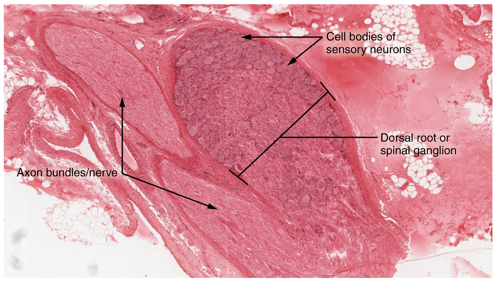 Version 8.25 from the Textbook OpenStax Anatomy and Physiology Published May 18, 2016